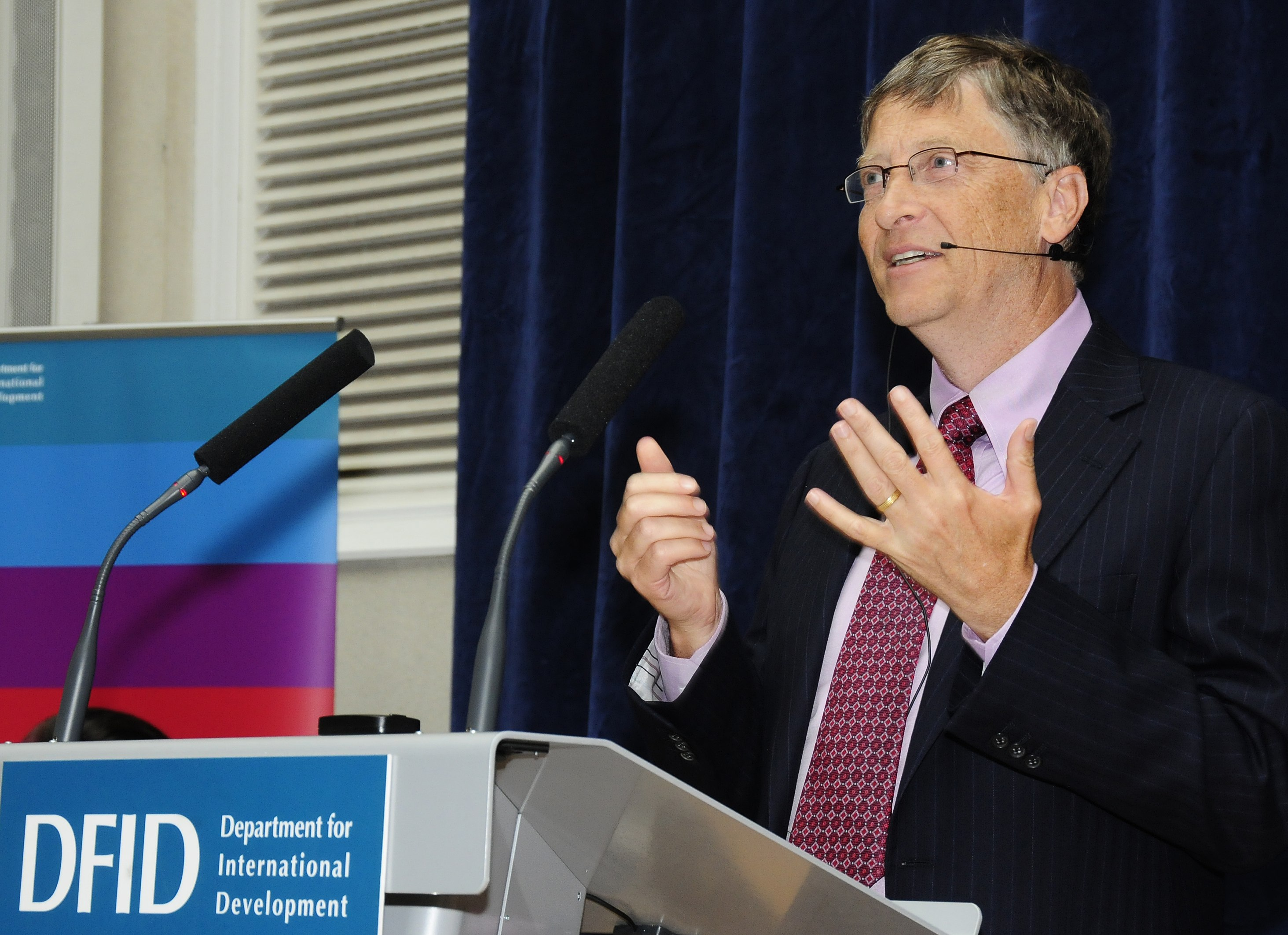 Bill and Melinda Gates visited DFID yesterday to address staff as part of a wider trip to the UK to highlight the importance of aid. Speaking ahead of the Gates Foundation’s Living Proof project launch with One International, the couple discussed their experience working on vaccines, malaria, education and reproductive health as well as the challenges of innovation, measurement of aid and the foundation’s role in developing countries. To find out more, please visit